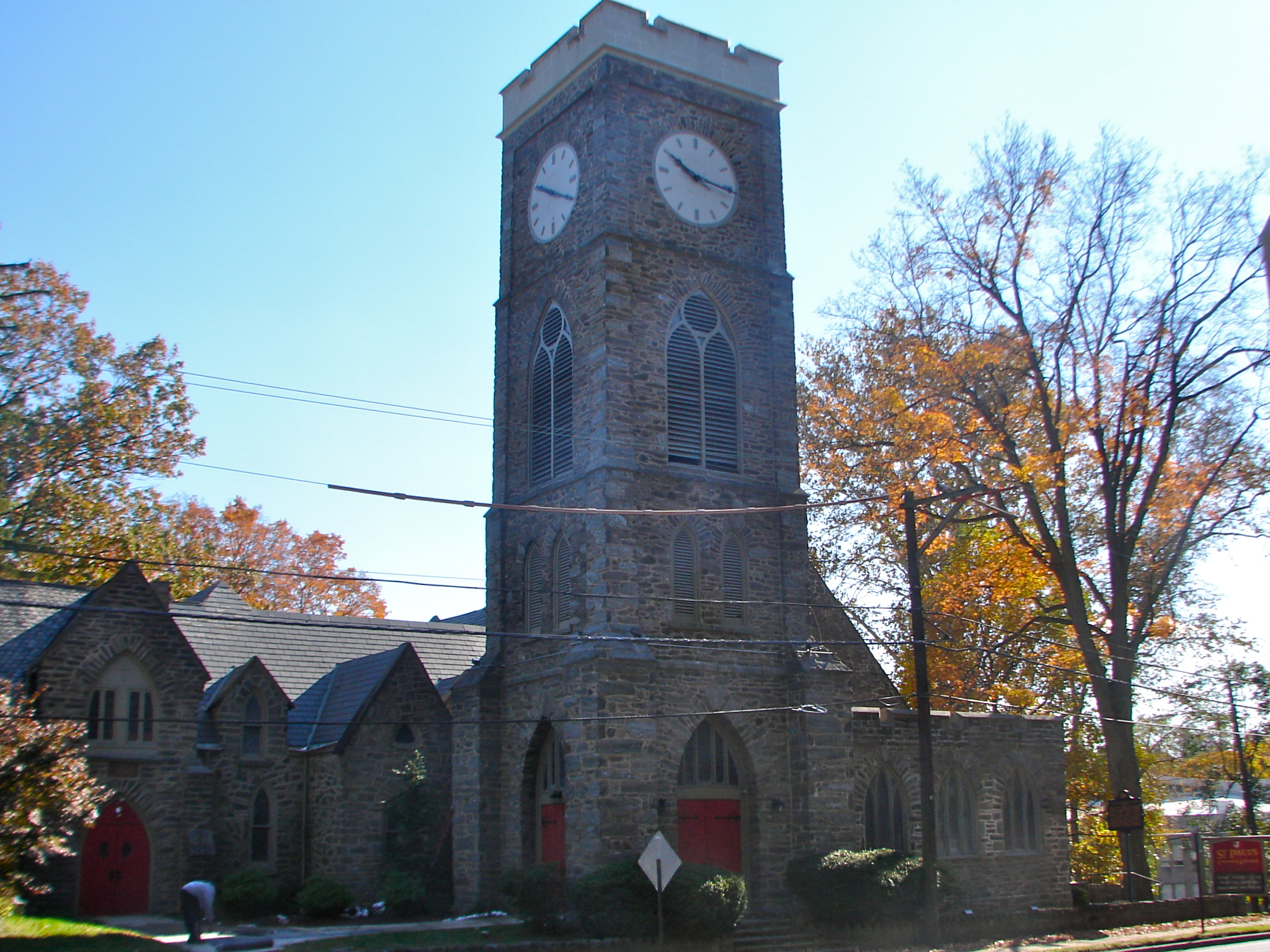 St. Paul's Episcopal Church on the NRHP since April 22, 1982. At Old York and Ashbourne Roads, Elkins Park, Montgomery County, Pennsylvania. Jay Cooke was the major benefactor. Horace Trumbauer, architect of several additions.